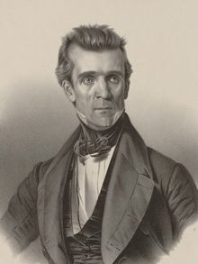 James K. Polk - 11th President of the United States (1845-1849), Library of Congress Prints and Photographs Division Washington, D.C. 20540 USA